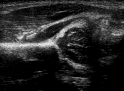 Medical ultrasound image. Provided as-is. Please feel free to categorise, add description, crop.